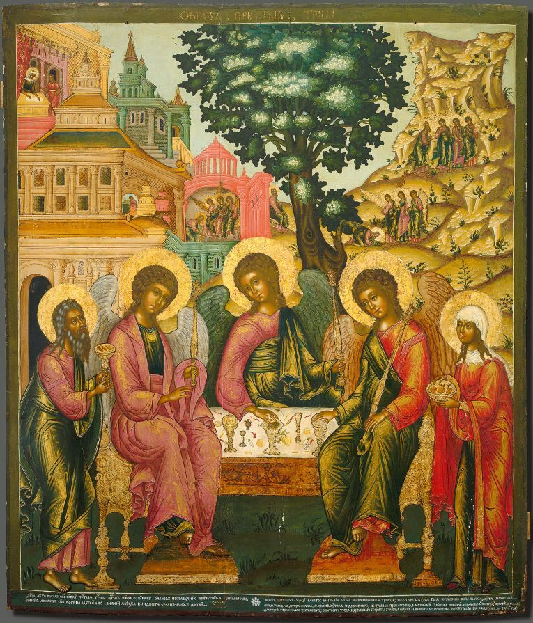 Icon of the Holy Trinity by Armory master Kirill Ulanov (1697).